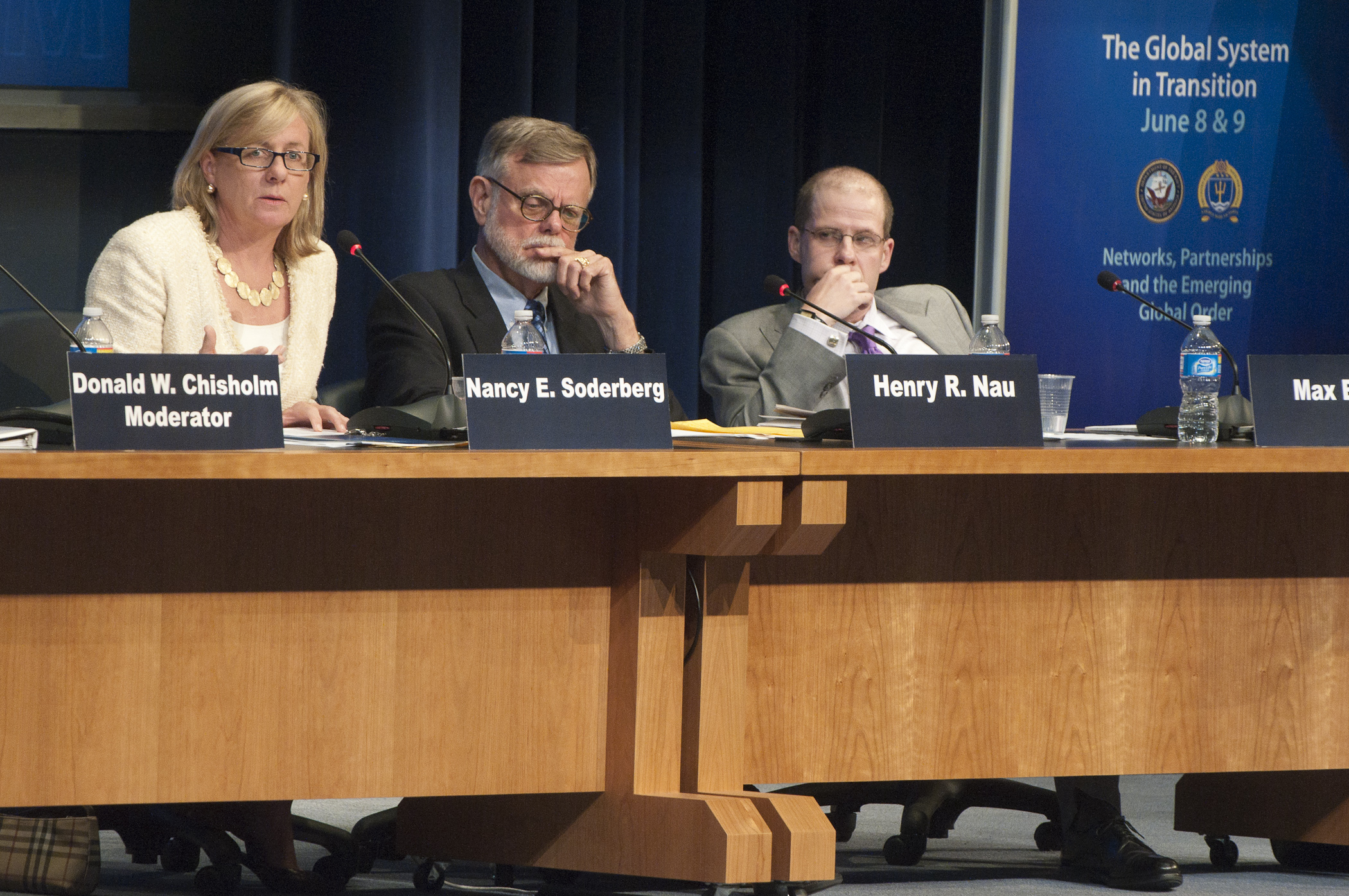 NAVAL WAR COLLEGE, Newport RI (June 8, 2010) Nancy Soderberg speaks at the first panel discussion at the 2010 Current Strategy Forun at the Naval War College. Hosted by the Honorable Ray Mabus, Secretary of the Navy, this year's conference will explore the theme of "The Global System in Transition" by examining United States foreign policy in the emerging global order, the "strategic leadership" opportunities for the United States, and the role of the maritime services in supporting the nation's key objectives.(U.S. Navy photo by Chief Electronics Technician James B. Clark)